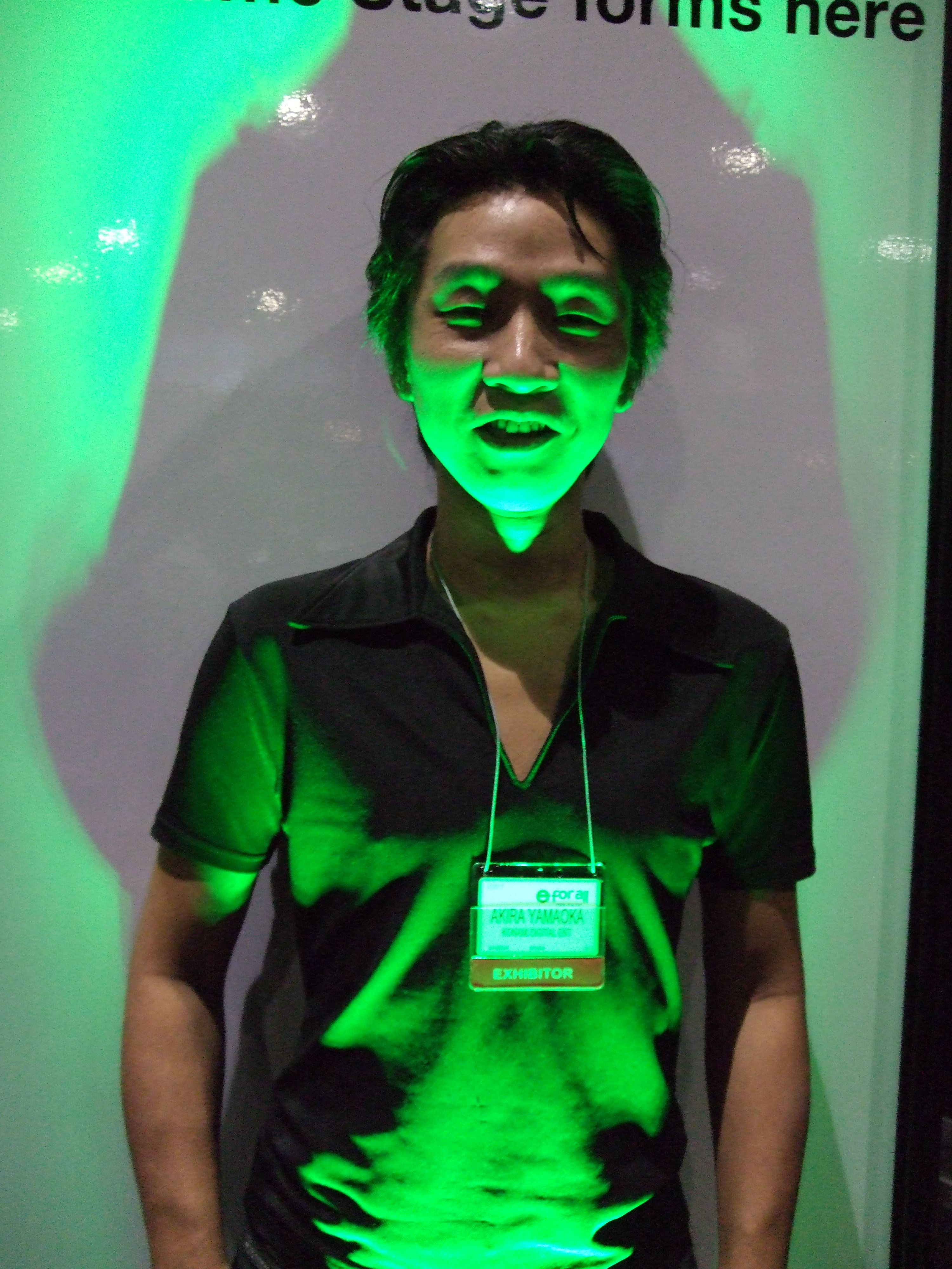 Akira Yamaoka is green.